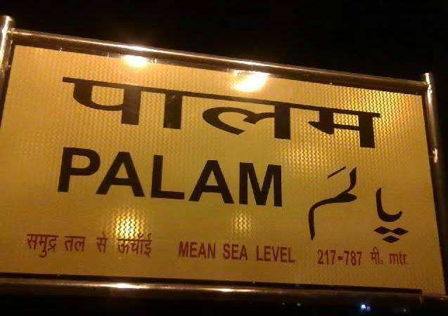 Palam Station Logo Board Sea Level